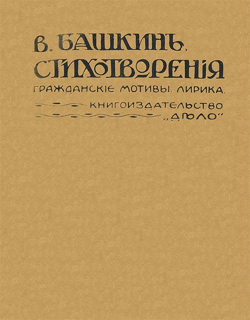 Cover of Poems by V. V. Bashkin (1880-1909)